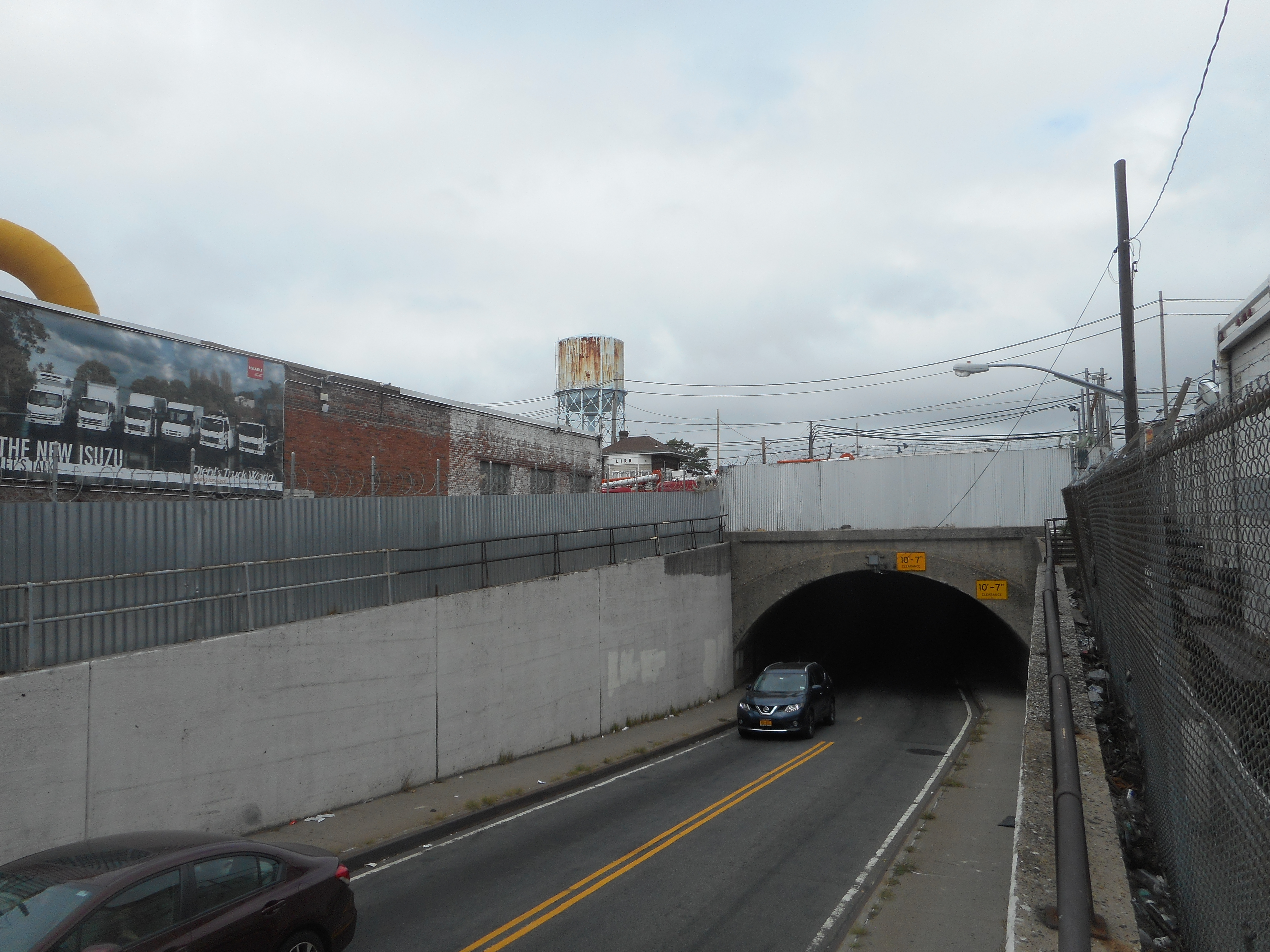 Attempted shot of the former Dunton Long Island Rail Road station as seen from the vicinity of the 130th Street Tunnel between the Jamaica and Richmond Hill sections of Queens, New York City. The Dunton Interlocking Tower is the approximate site of the Flatbush Avenue-bound platforms, and the water tower off of 92nd Avenue on the other side of the tracks is behind that. This image was taken from the top of the embankment along the northbound sidewalk.